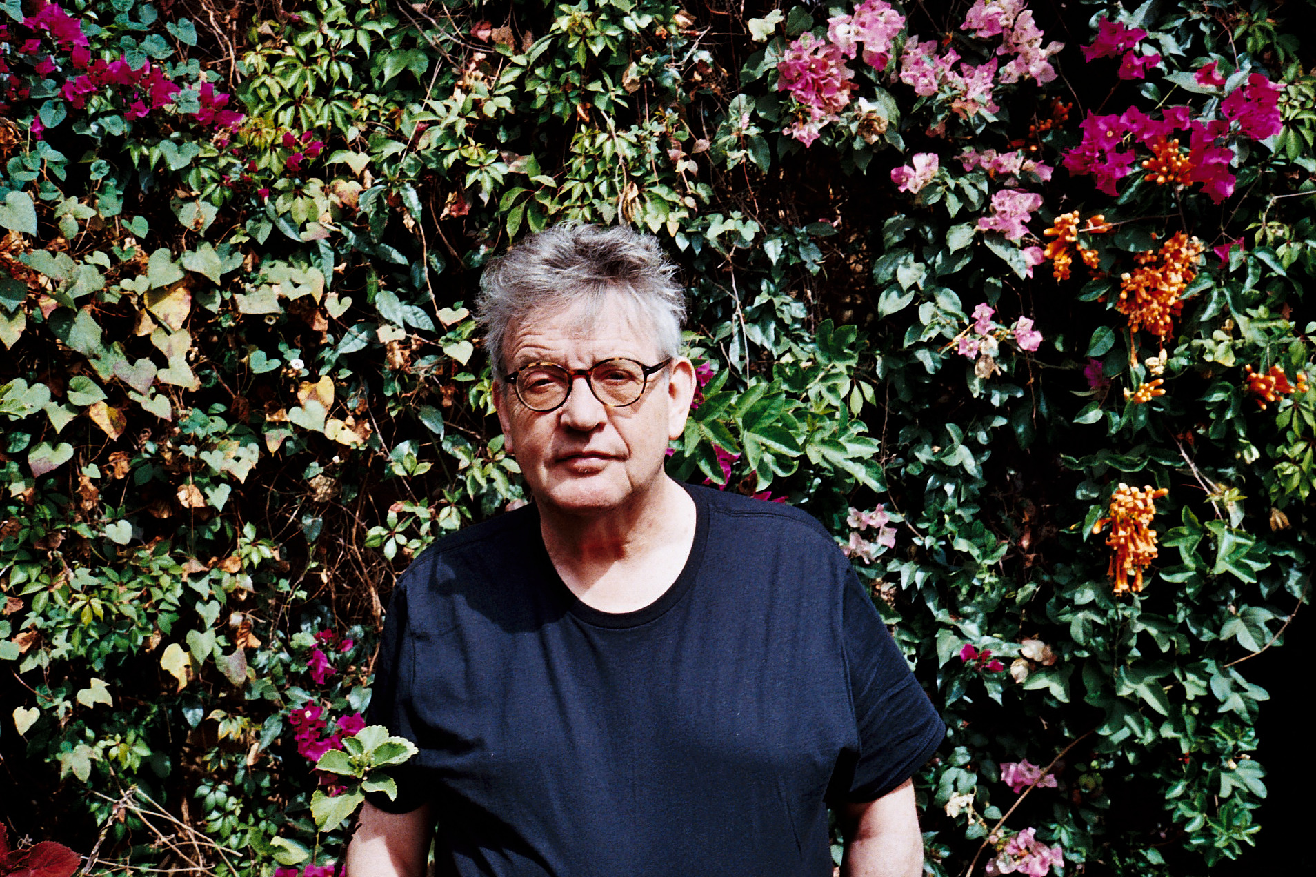 Paul Muldoon in Tepoztlán, 2018. Photograph by Alejandro Arras